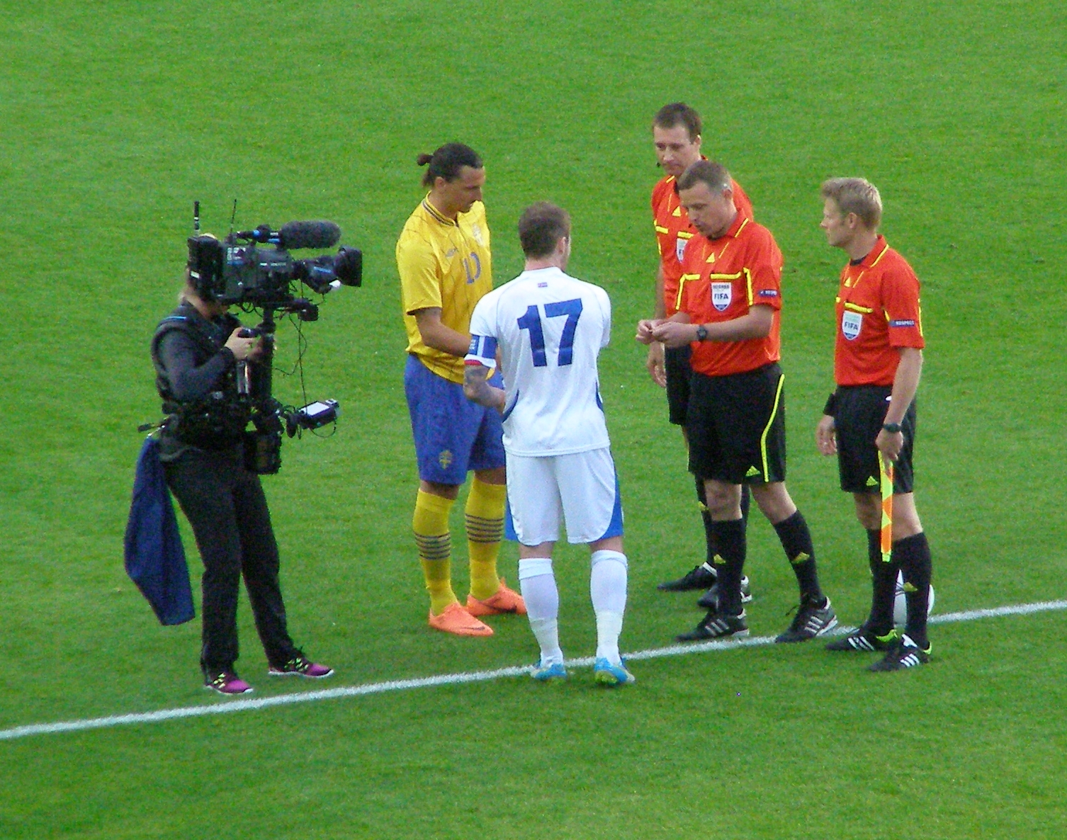 Gothenburg - Gamla Ullevi - Sweden-Iceland friendly - captains Zlatan Ibrahimović and Aron Gunnarsson and referee Peter Rasmussen (DEN) with other officials